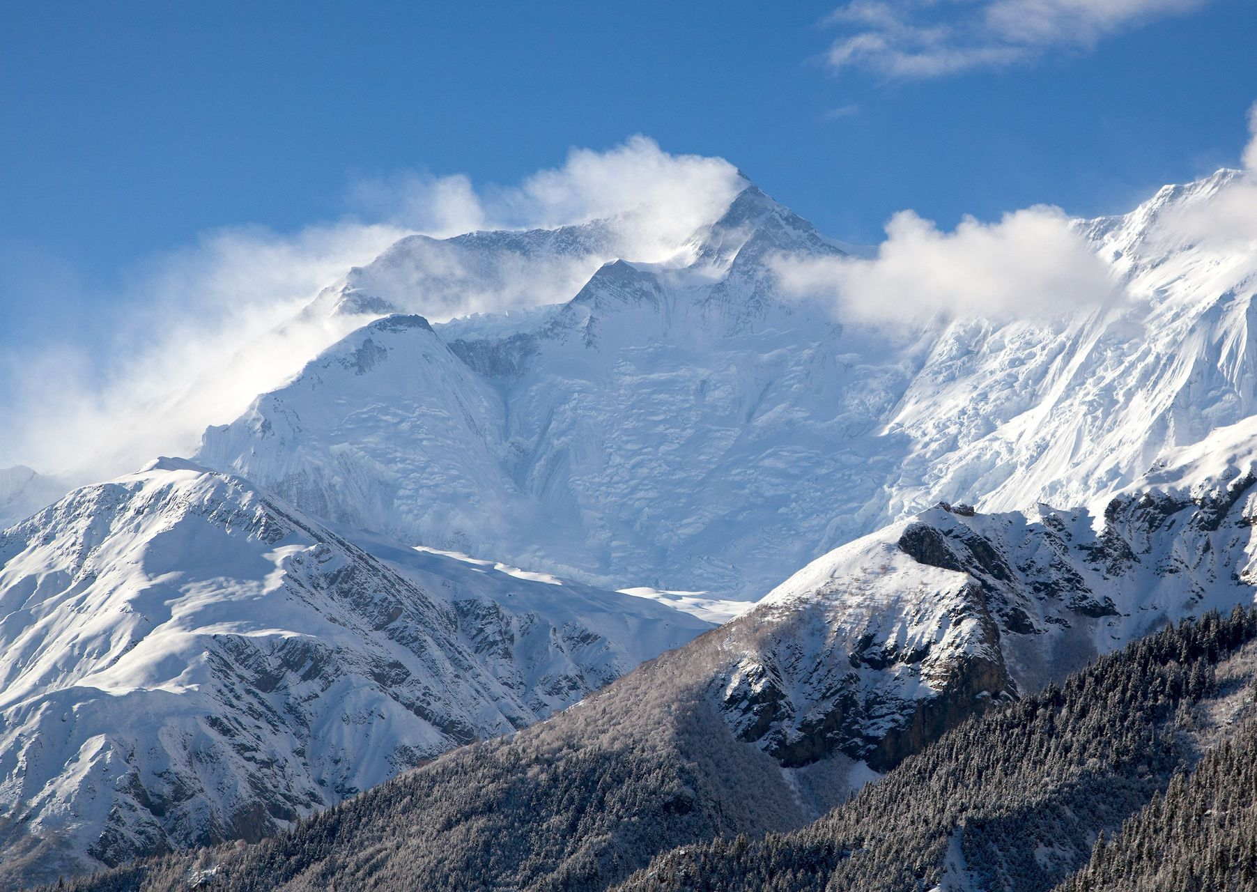 Annapurna II (7937 m), Nepal